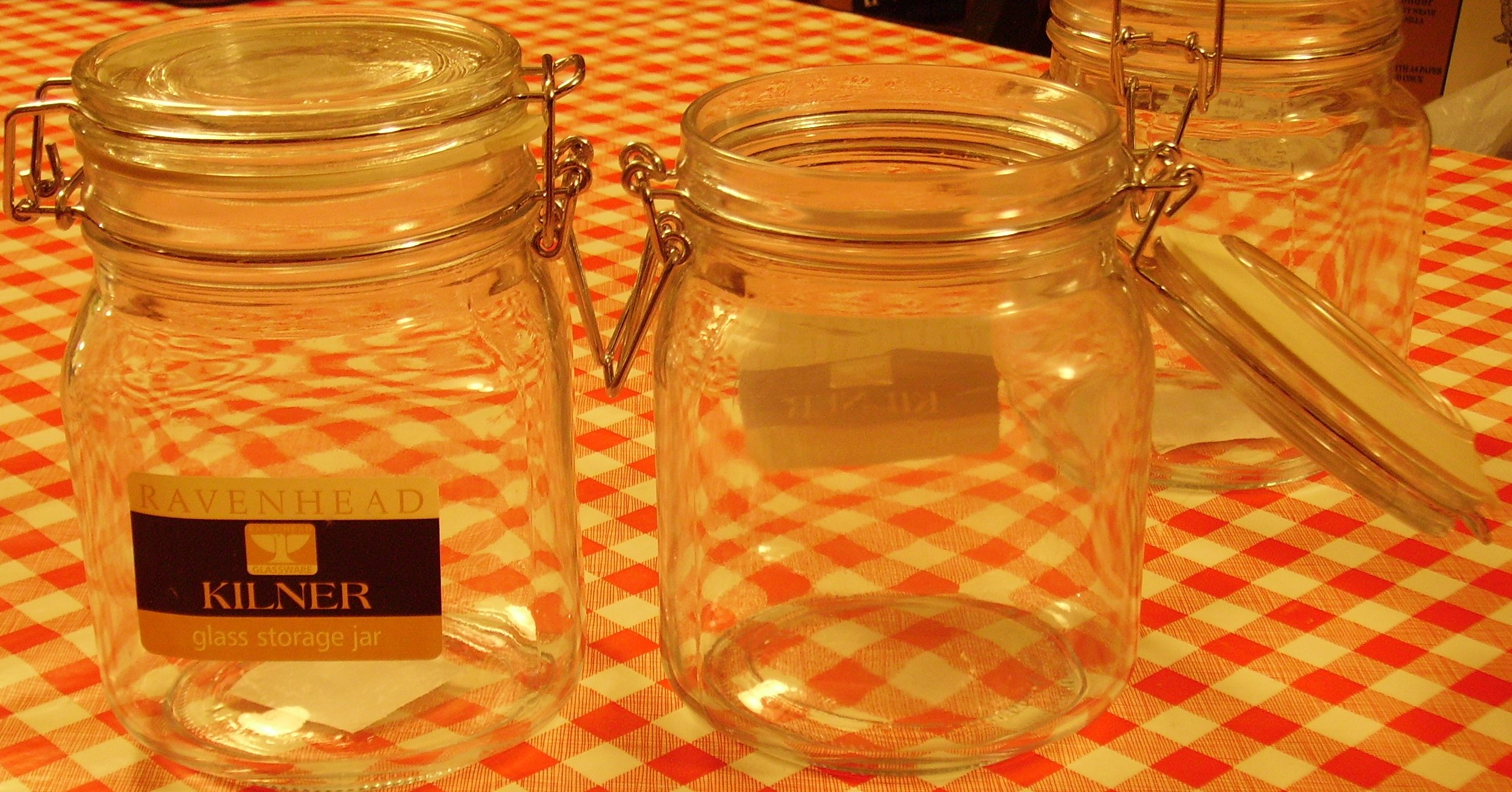 A modern "French Kilner" jar (also know as bail closure jar in the USA)